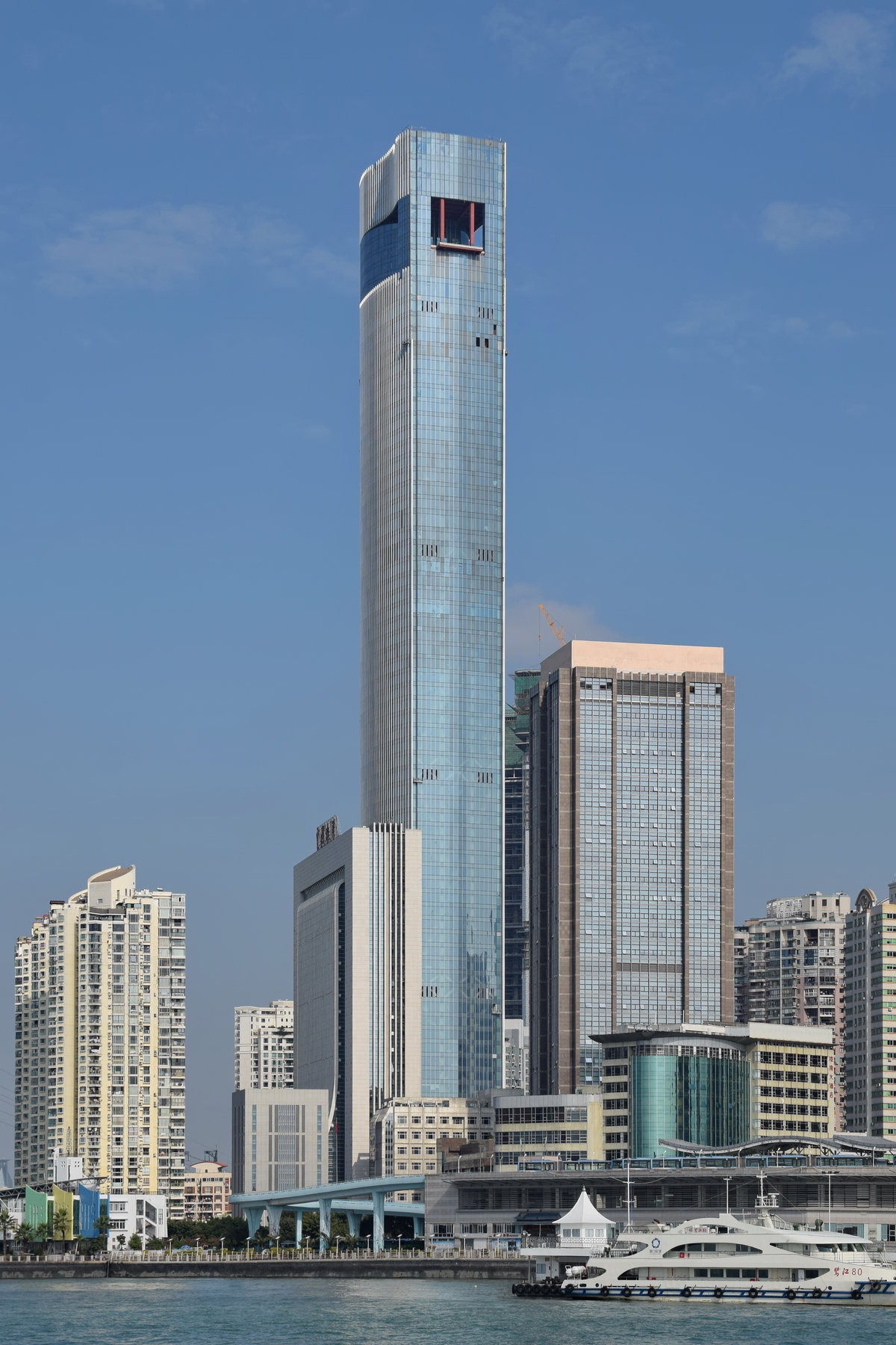 Xiamen International Center, tallest building in Fujian